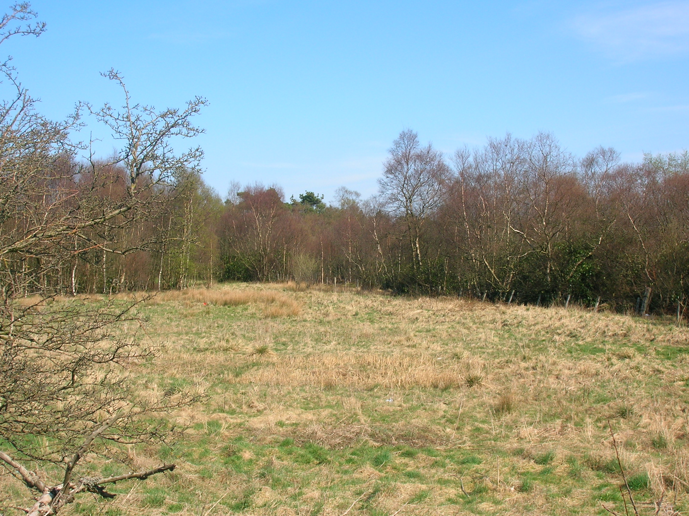 Bloak Moss, Auchentiber, East Ayrshire, Scotland. 2007.